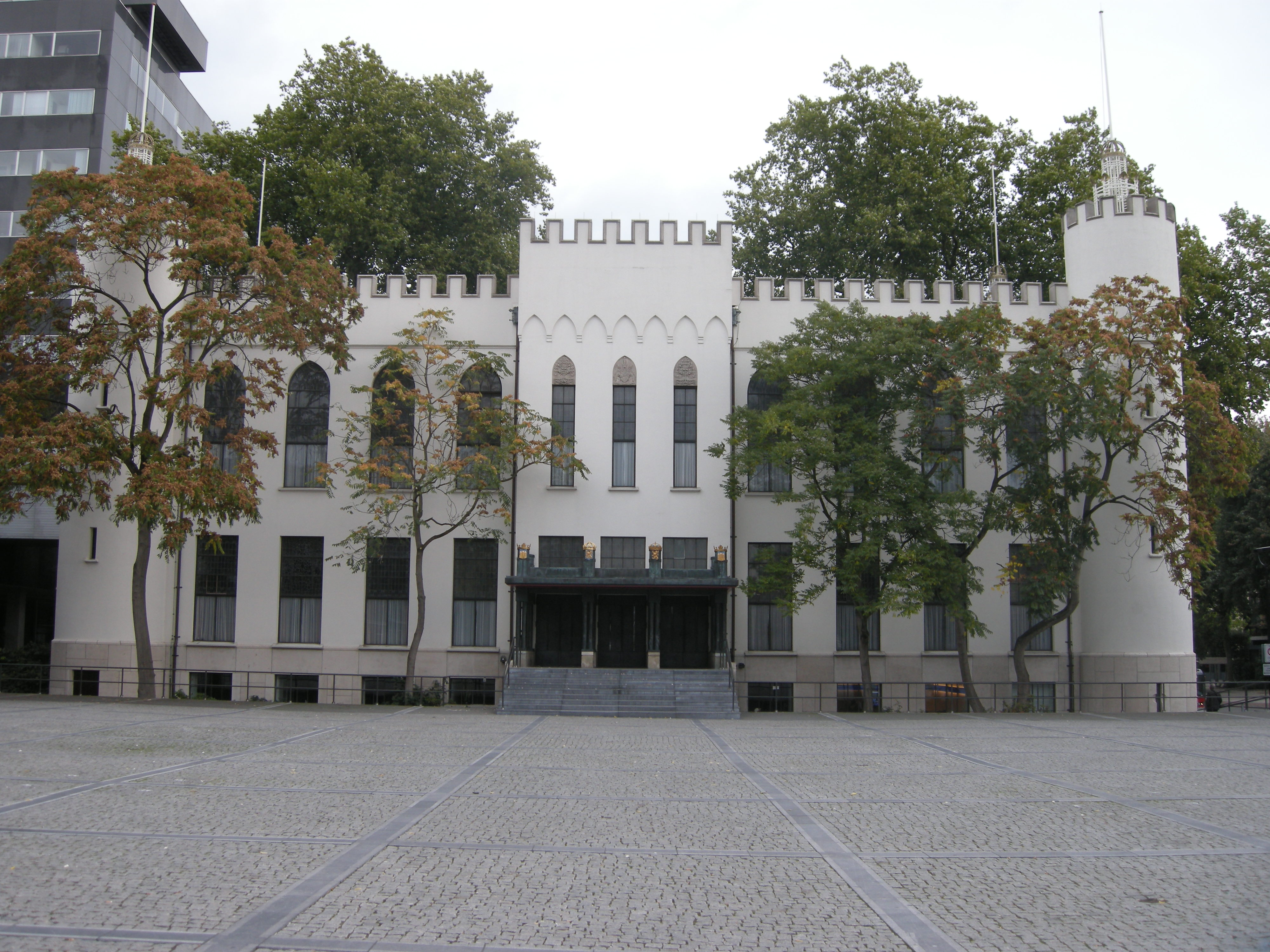 Town Hall of Tilburg, a former royal palace build for king William II of the Netherlands.